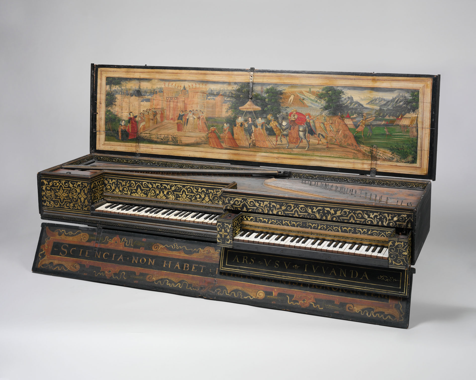 Flemish; Double Virginal; Chordophone-Zither-plucked-virginal